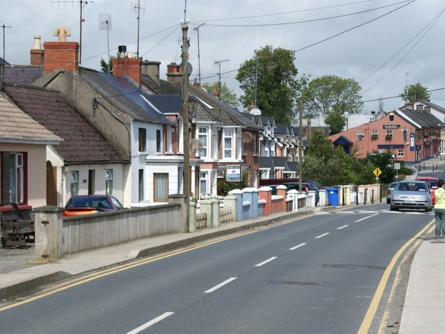 Main Street, Riverchapel, near to Riverchapel, Baile na Cuirte, Ballydane and Boleany Cross Roads, Wexford, Ireland. Looking north along the R742 from near Seamount Village. The road crosses the Breanoge River in the dip in the middle distance.